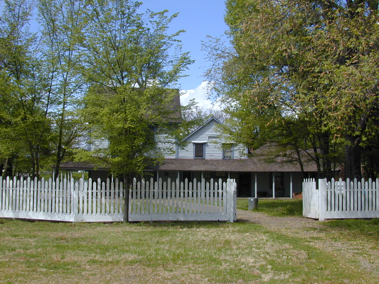 Bluegrass festival at Anderson Marsh State Historic Park